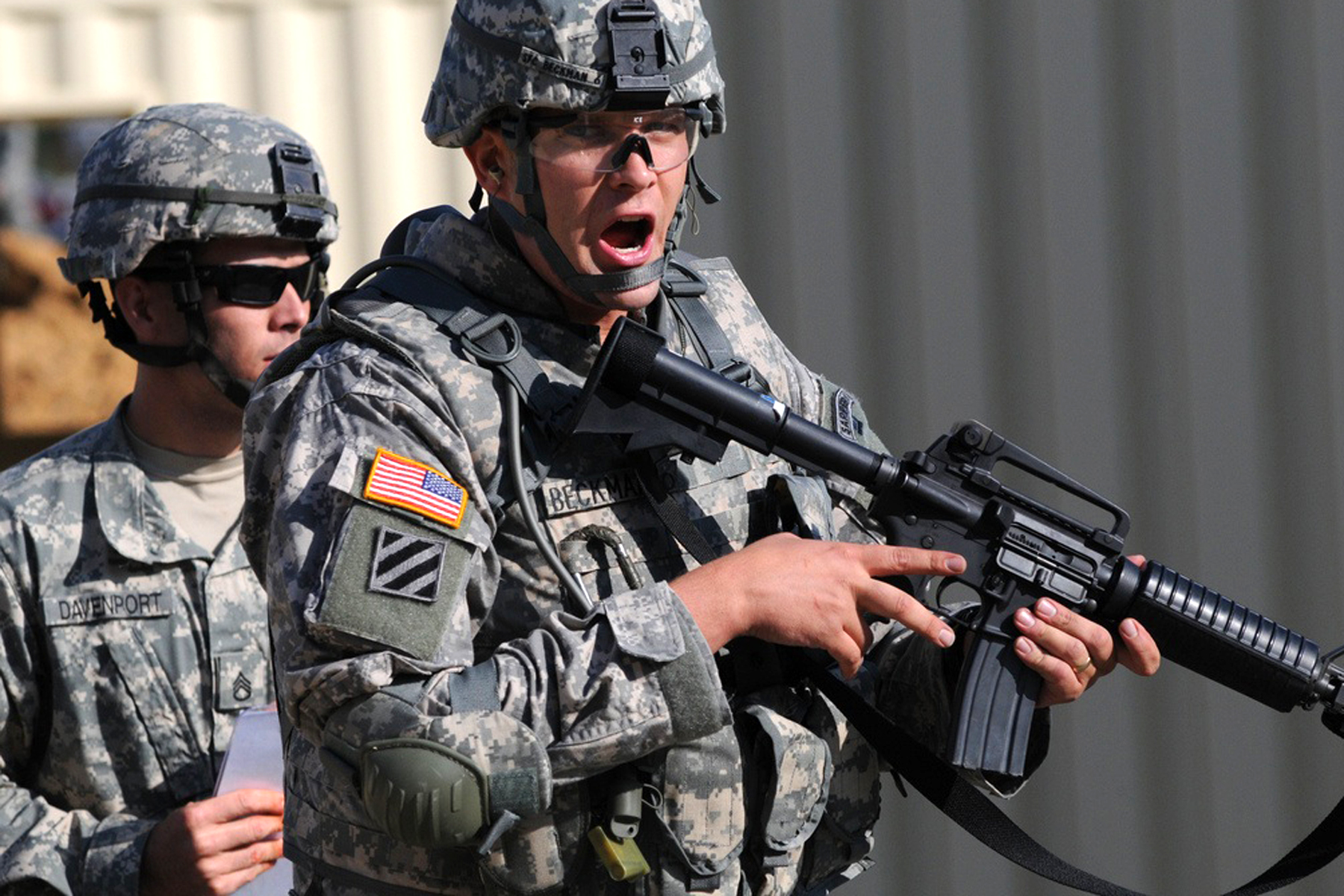 Sgt. 1st Class Aaron Beckman, representing U.S. Army Europe, reacts to an attack during the 'Evaluate a Casualty' Warrior Tasks and Battle Drills during the 2009 Department of the Army Best Warrior Competition held Sept. 28 - Oct. 2 at Fort Lee, Va. Beckman was chosen as the 2009 Noncommissioned Officer of the Year during a ceremony on October 5th.